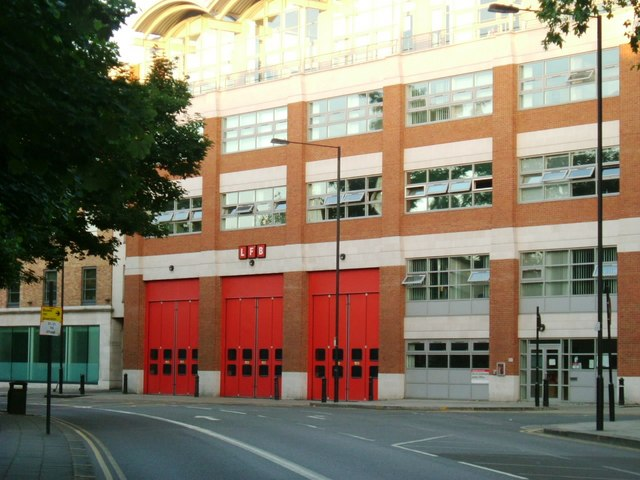 Hammersmith Fire Station, W6. In Shepherd's Bush Road, Hammersmith. Hammersmith Fire Station, W6 opened 2003 - the former fire station helpfully now called 'Fire Station, Hammersmith' is now a bar/restaurant, and about 400 yards along Shepherd's Bush Road, see: 1020397.